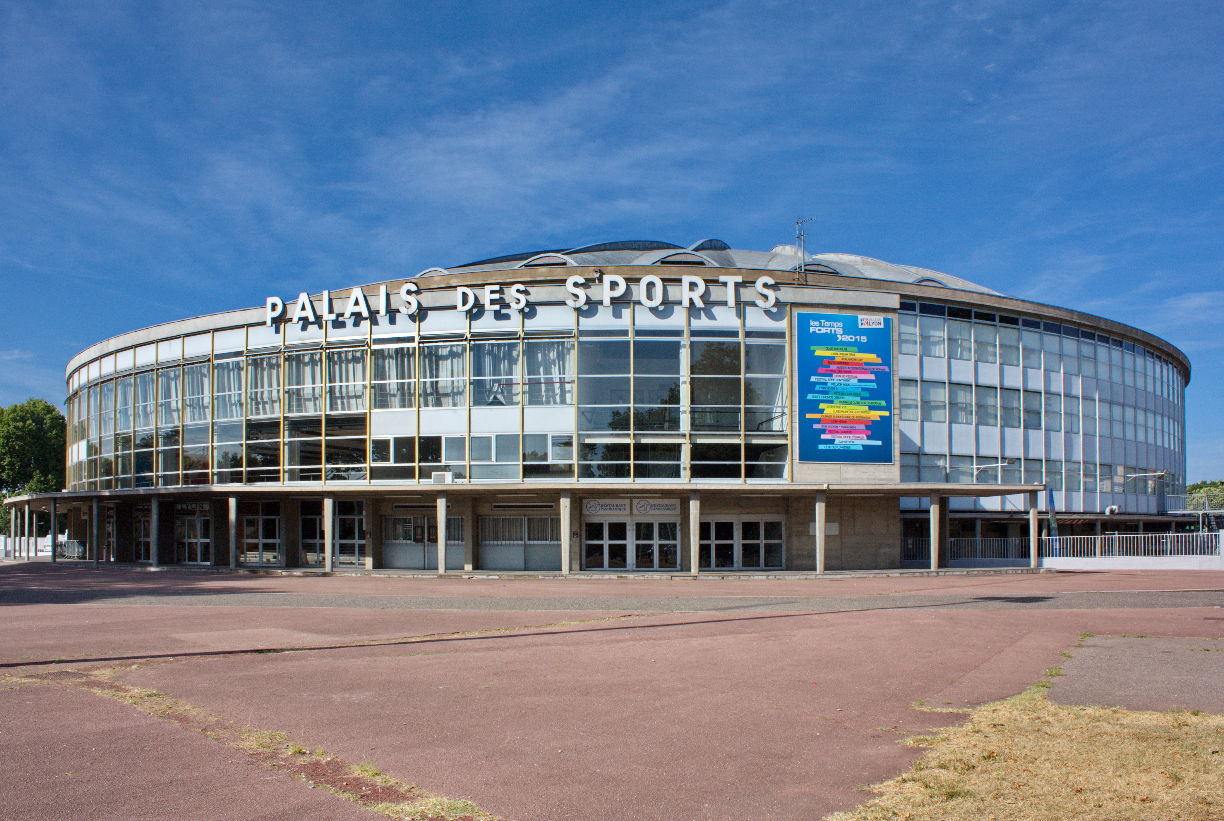 Palais des sports de Gerland Built: 1962. Architects: Louis Weckerlin, Charles Delfante, Paul Guillot.